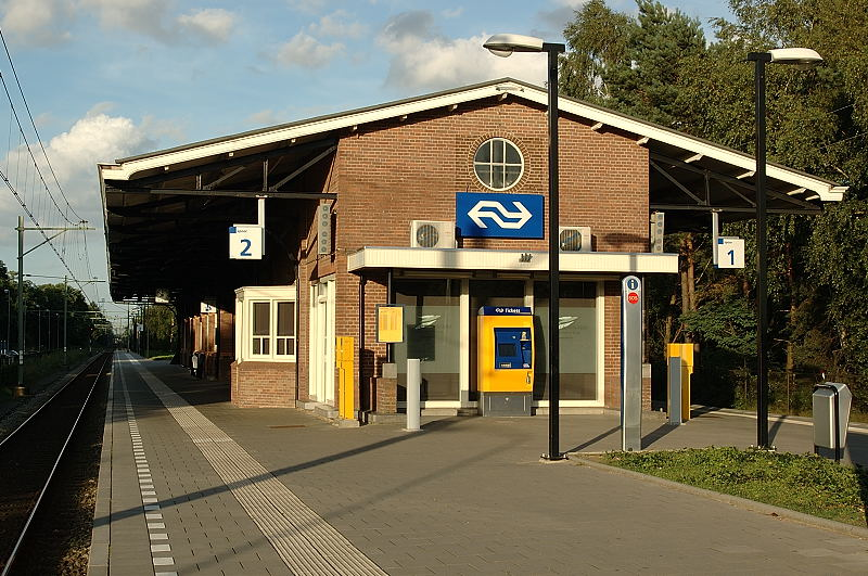 Part of the railwaystation of Nunspeet with the building on the platform between the tracks.